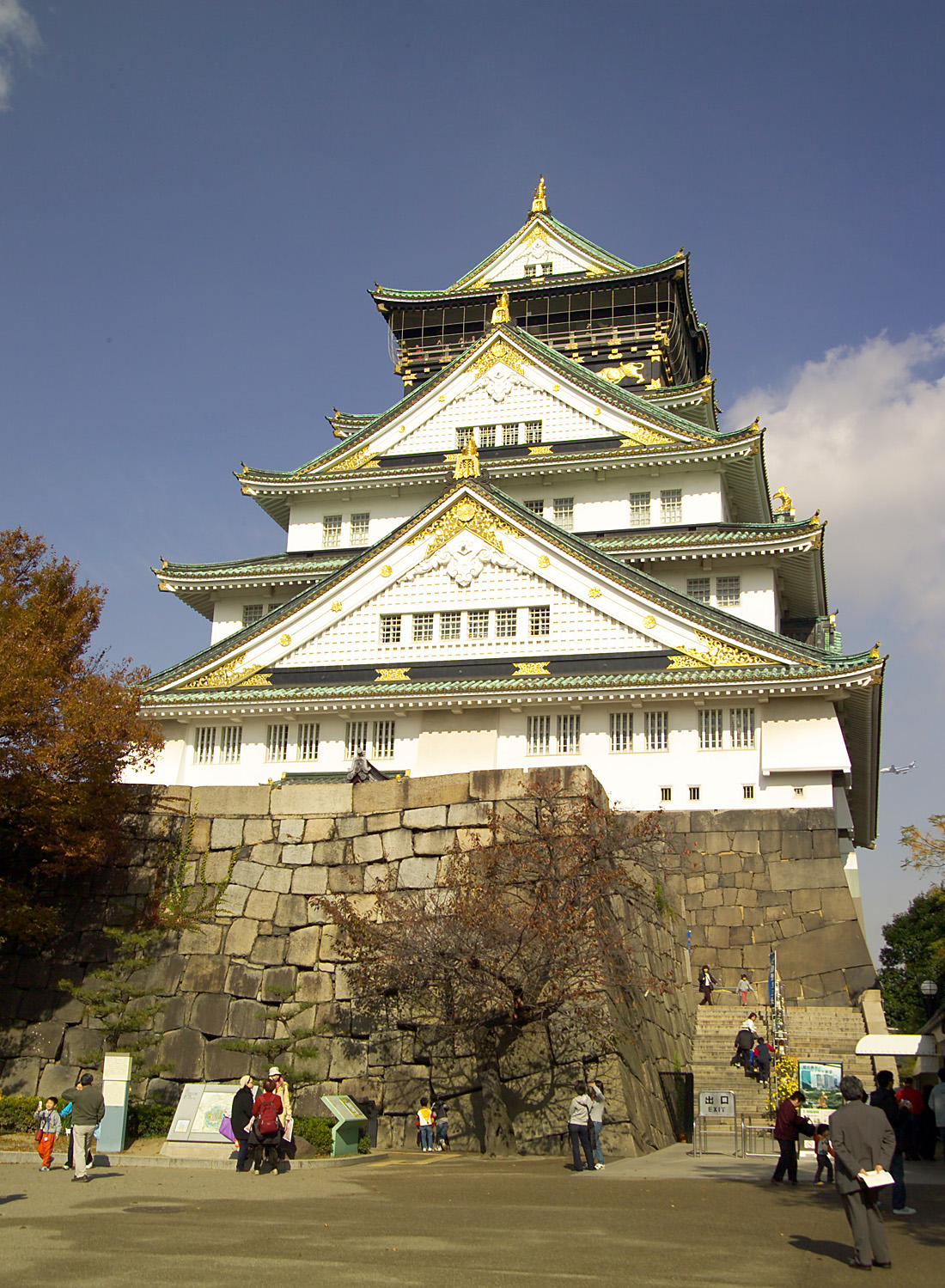 This photo shows Osaka Castle in the city of Osaka, Osaka Prefecture, Japan. I took the photo and contribute my rights in the file to the public domain; individuals and organizations retain rights to images in it.